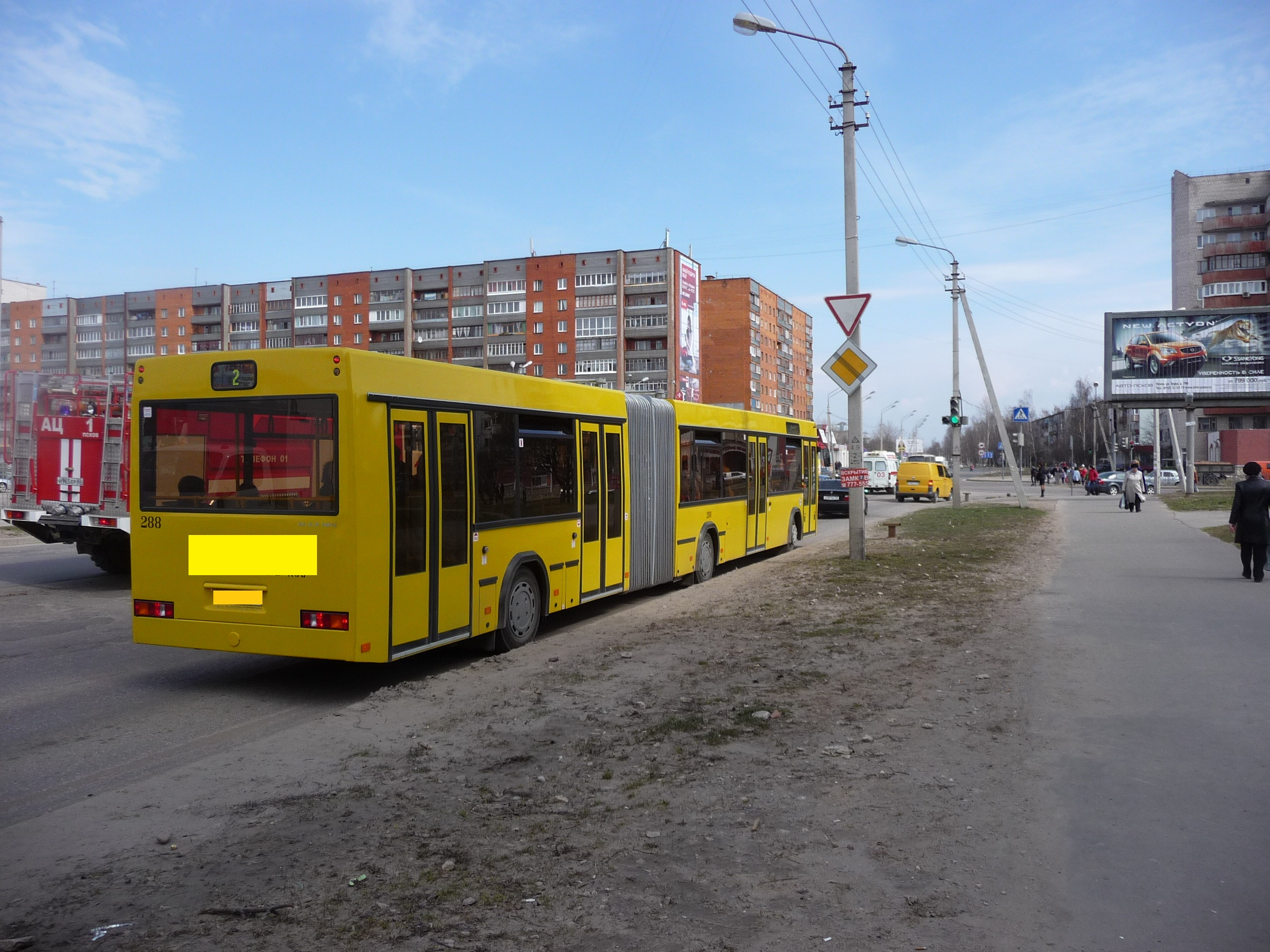 MAZ 105 bus (#288) in Pskov, Russia.